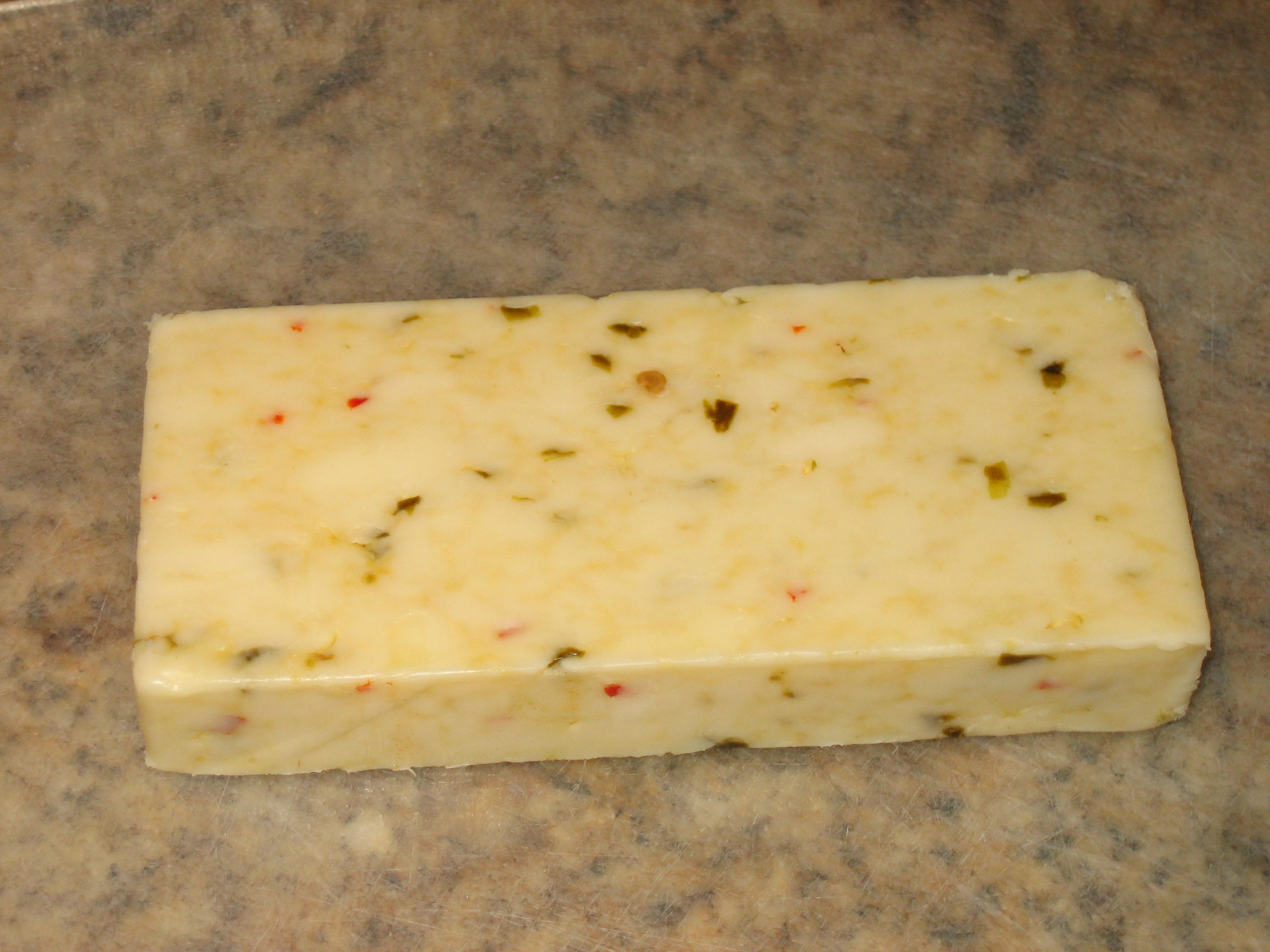 A block of pepper jack cheese.